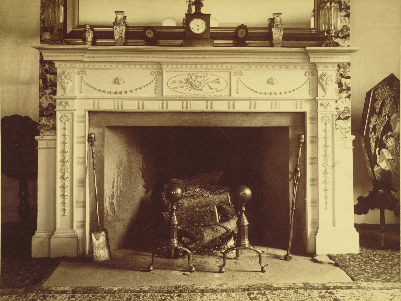 Collection: A. D. White Architectural Photographs, Cornell University Library Accession Number: 15/5/3090.00186 Title: Crowinshield Devereux House (Interior, Mantelpiece) Photographer: Moulton-Erickson Photograph Company (American, active ca. 1890-1900) Photograph date: ca. 1890-ca. 1900 Building Date: 1724 Location: North and Central America: United States; Massachusetts, Salem Materials: albumen print Image: 6 1/4 x 8 3/8 in.; 15.875 x 21.2725 cm Style: Georgian Provenance: Transfer from the College of Architecture, Art and Planning Persistent URI: There are no known U.S. copyright restrictions on this image. The digital file is owned by the Cornell University Library which is making it freely available with the request that, when possible, the Library be credited as its source. We had some help with the geocoding from